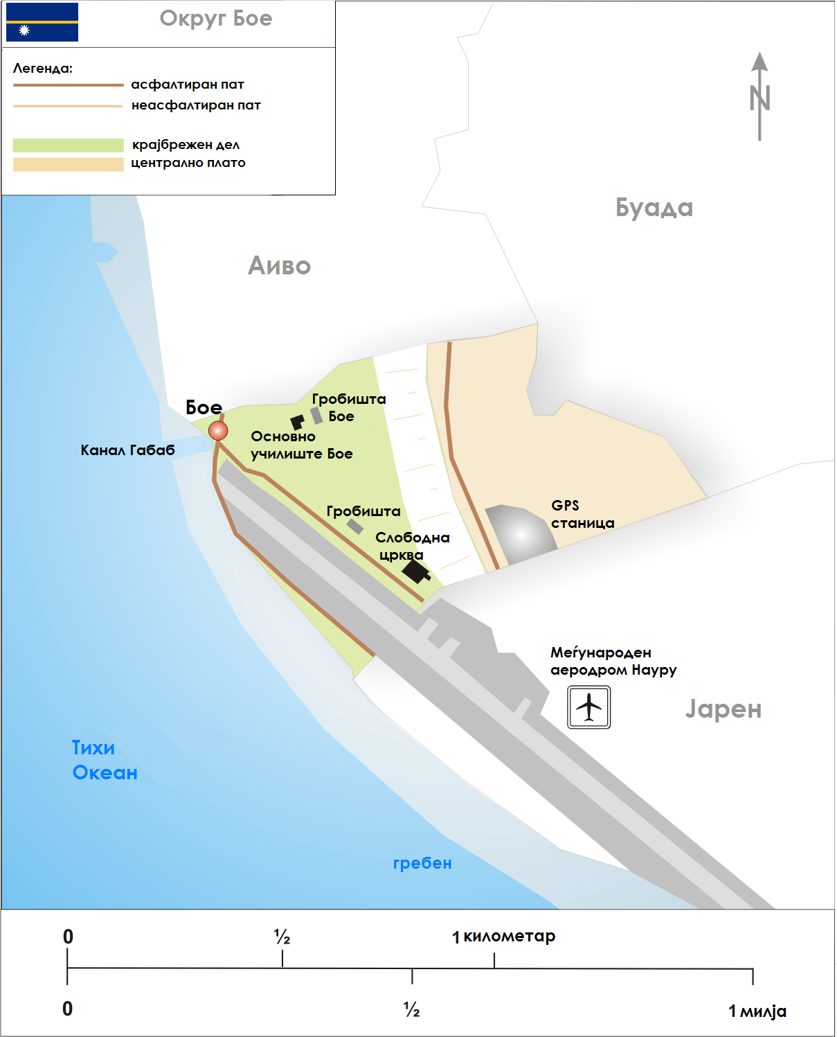 Map of Boe District in Nauru on Macedonia.